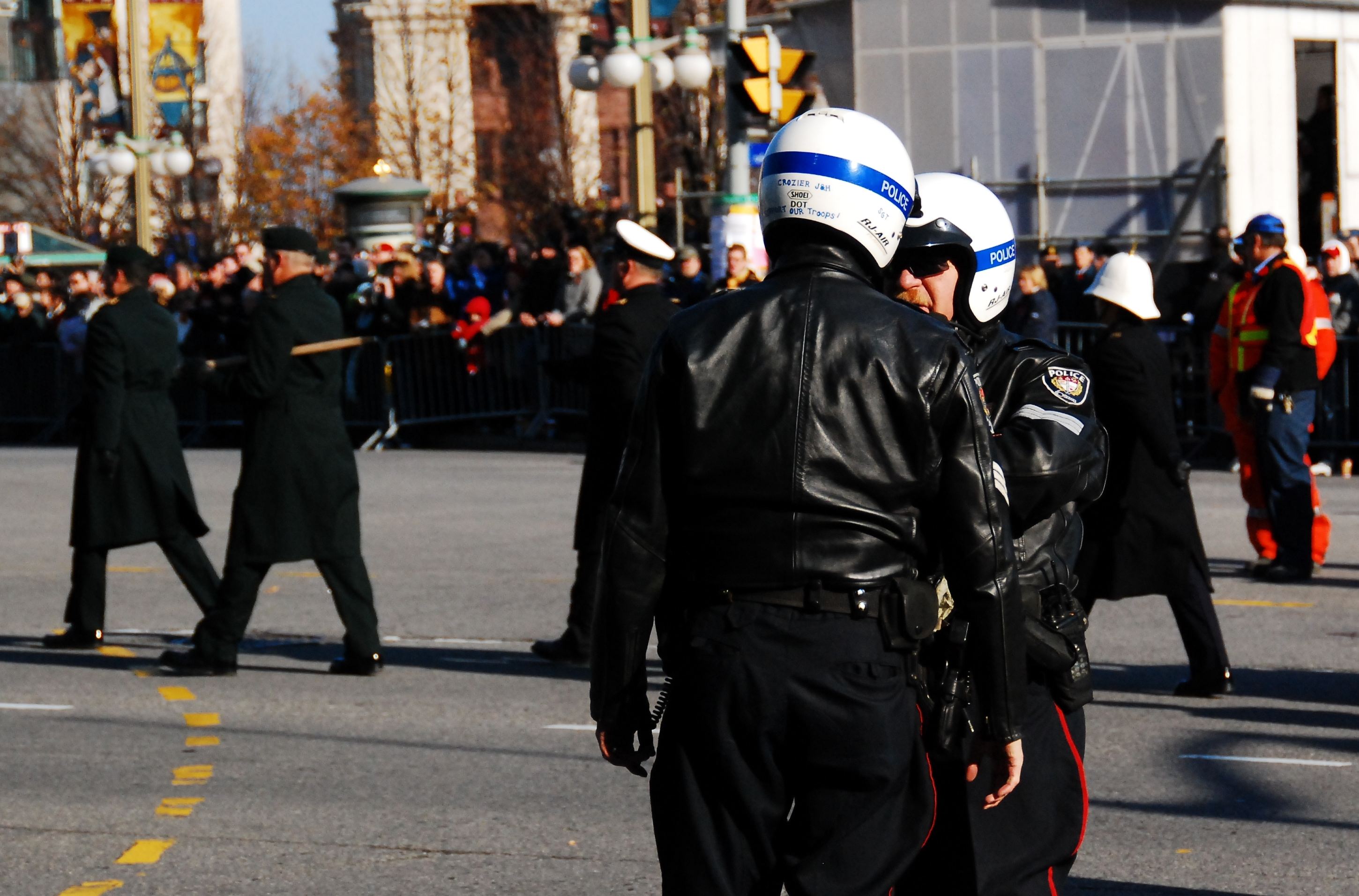 Two members of the Ottawa Police Service's (Traffic Section) motorcycle unit talking while members of the military march past the crowd in the background, during Remembrance Day ceremonies in Ottawa.